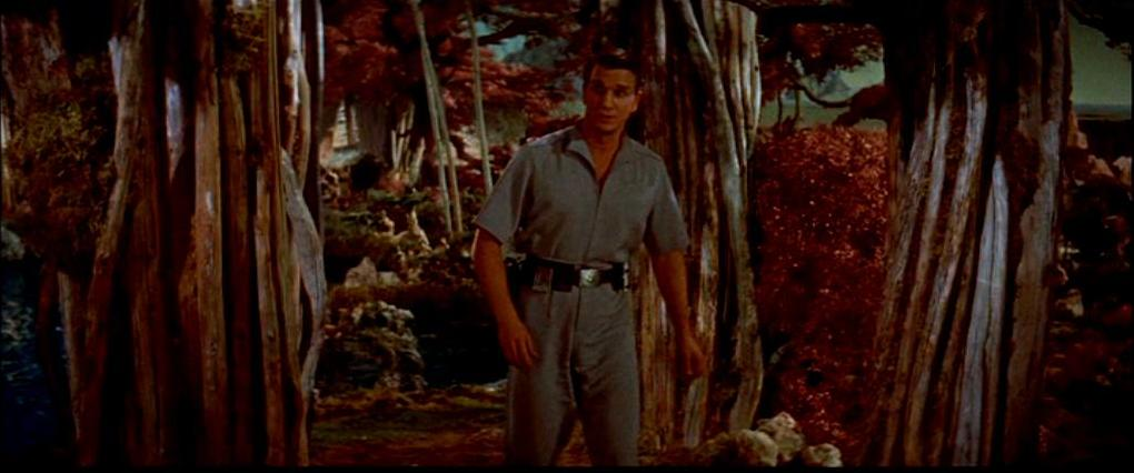 Screenshot of Leslie Nielsen from the trailer for the film Forbidden Planet.